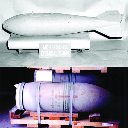 MC-1 Bombs (Photo courtesy U.S. Army)